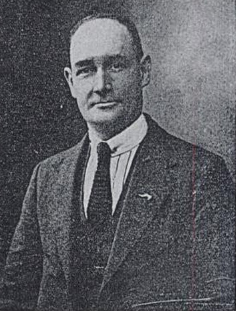 William Richard Townley, Labour Party member of Northampton Borough Council, later General Secretary of the National Union of Boot and Shoe Operatives